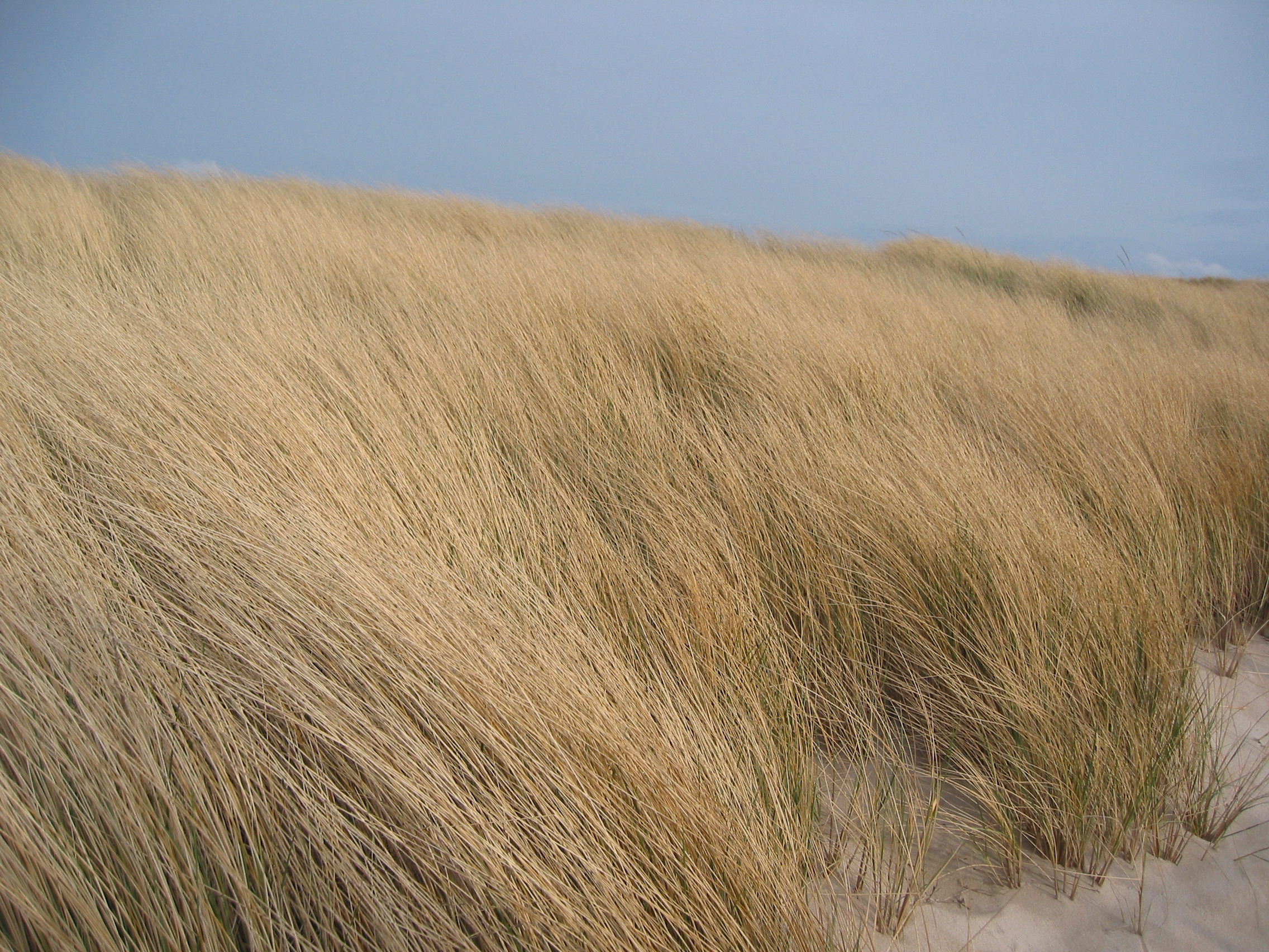 Beach grass on dune on Sylt, Germany.